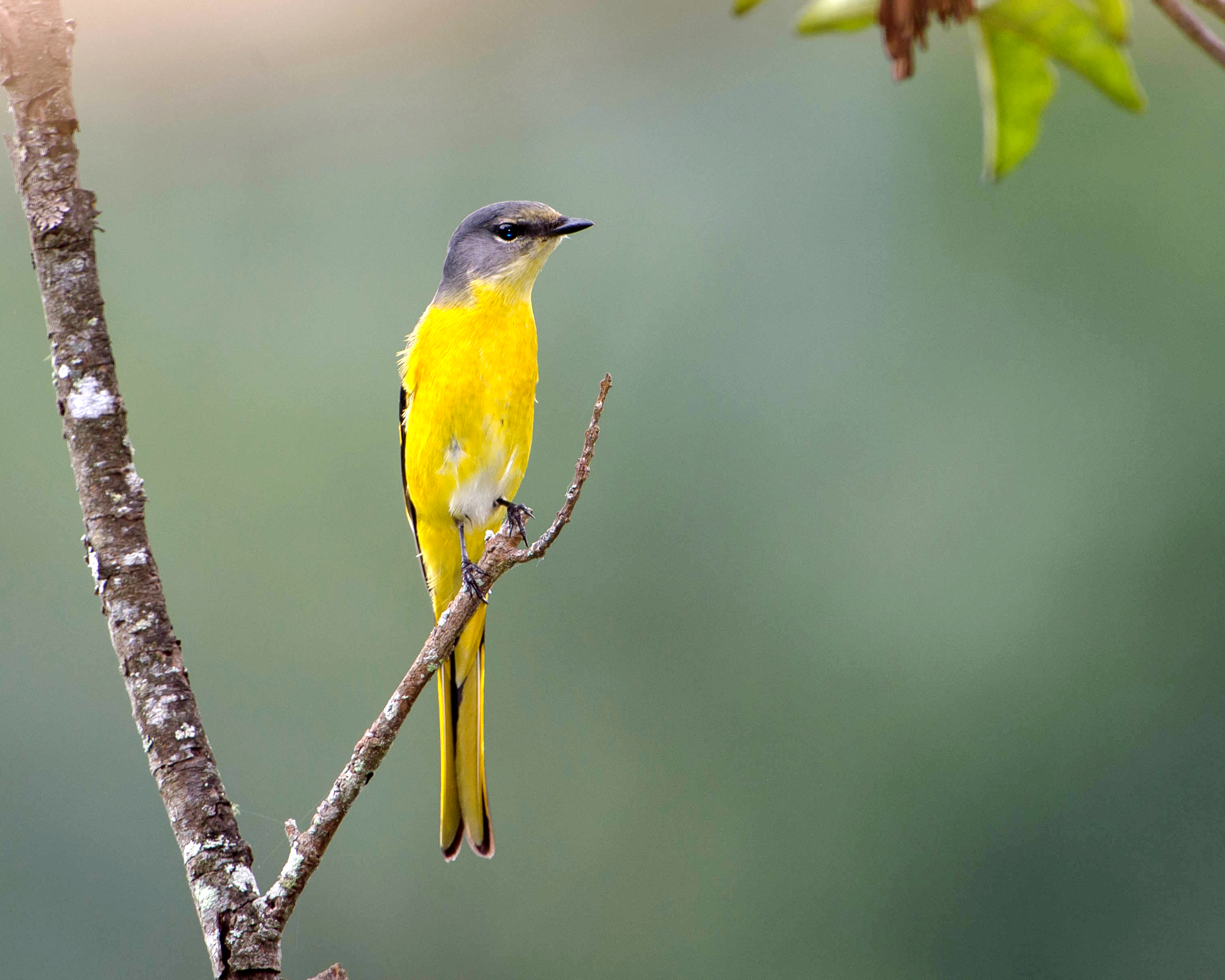 Female of Grey-chinned Minivet (Pericrocotus solaris). Doi Inthanon Royal Project, Doi Inthanon, Chiang Mai, Thailand